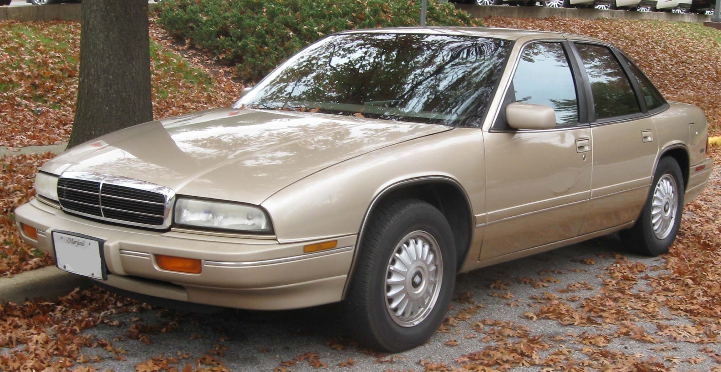 1988-1994 Buick Regal Custom photographed in Greenbelt, Maryland, USA.